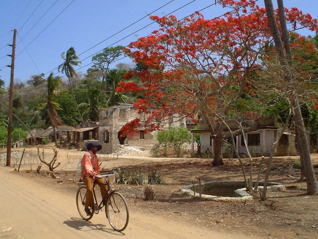 Scene in Mikindani, Tanzania, with cyclist and Flamboyant (tree)